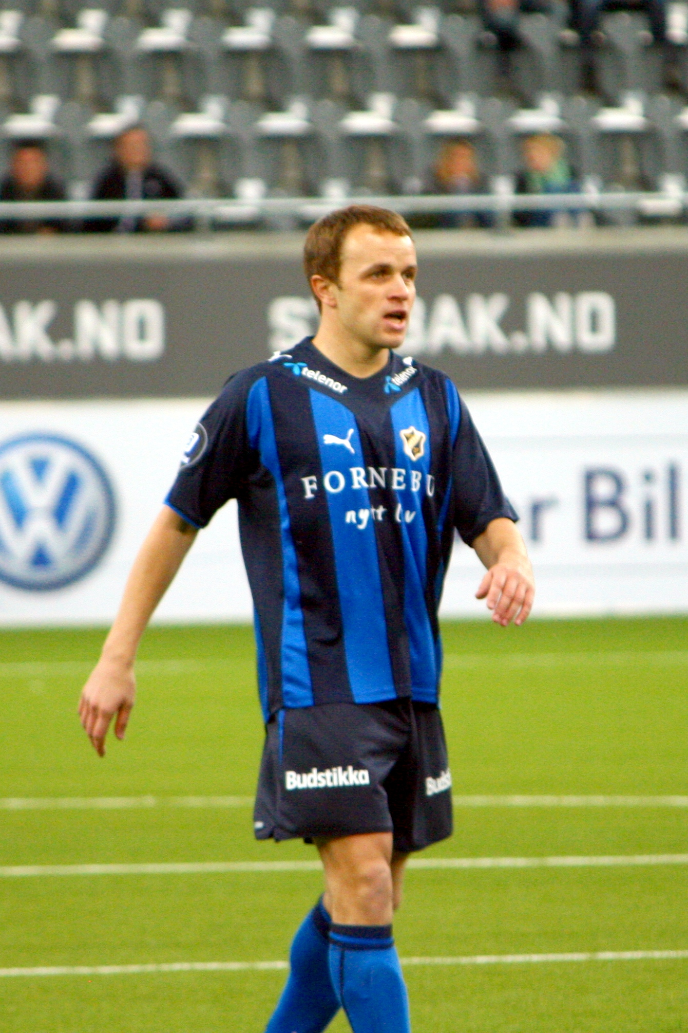 Czech footballer Zdeněk Šenkeřík.